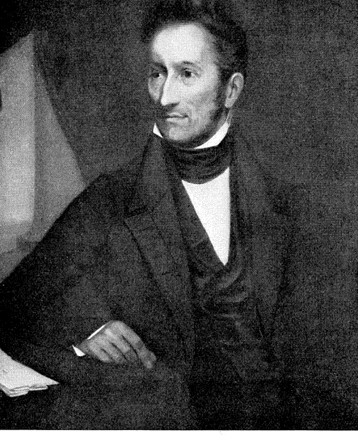 Portrait of Nathaniel Silsbee from Ralph Delahaye Paine, The Ships and Sailors of Old Salem: The Record of a Brilliant Era of American Achievement, 1912, p. 318. ISBN 9781171703129.